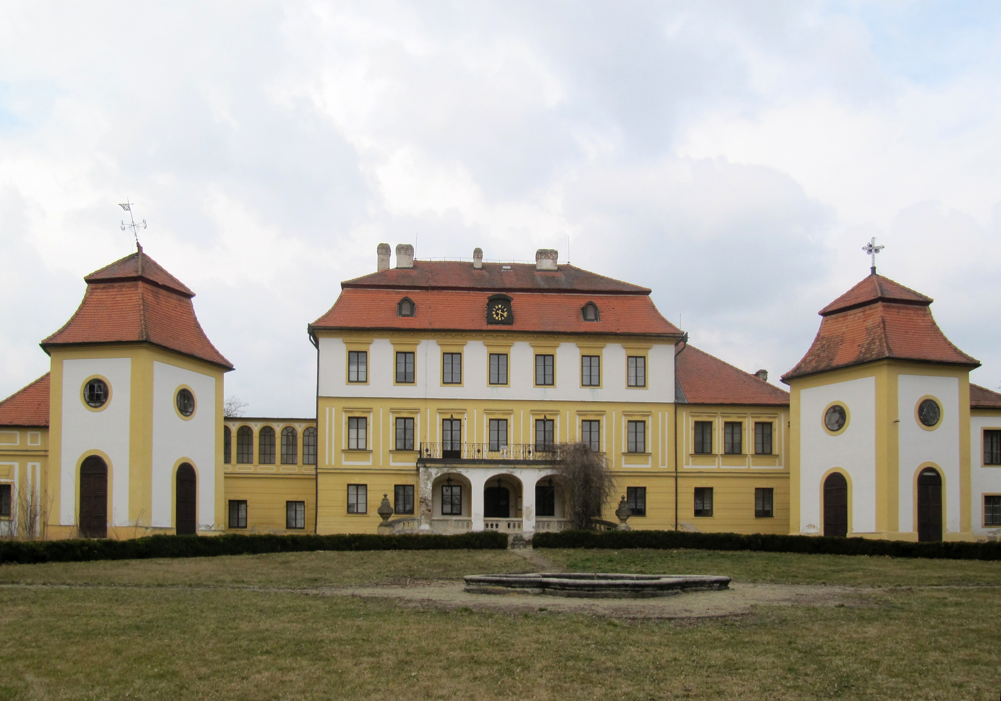 Kravsko, Znojmo District, Czech Republic.